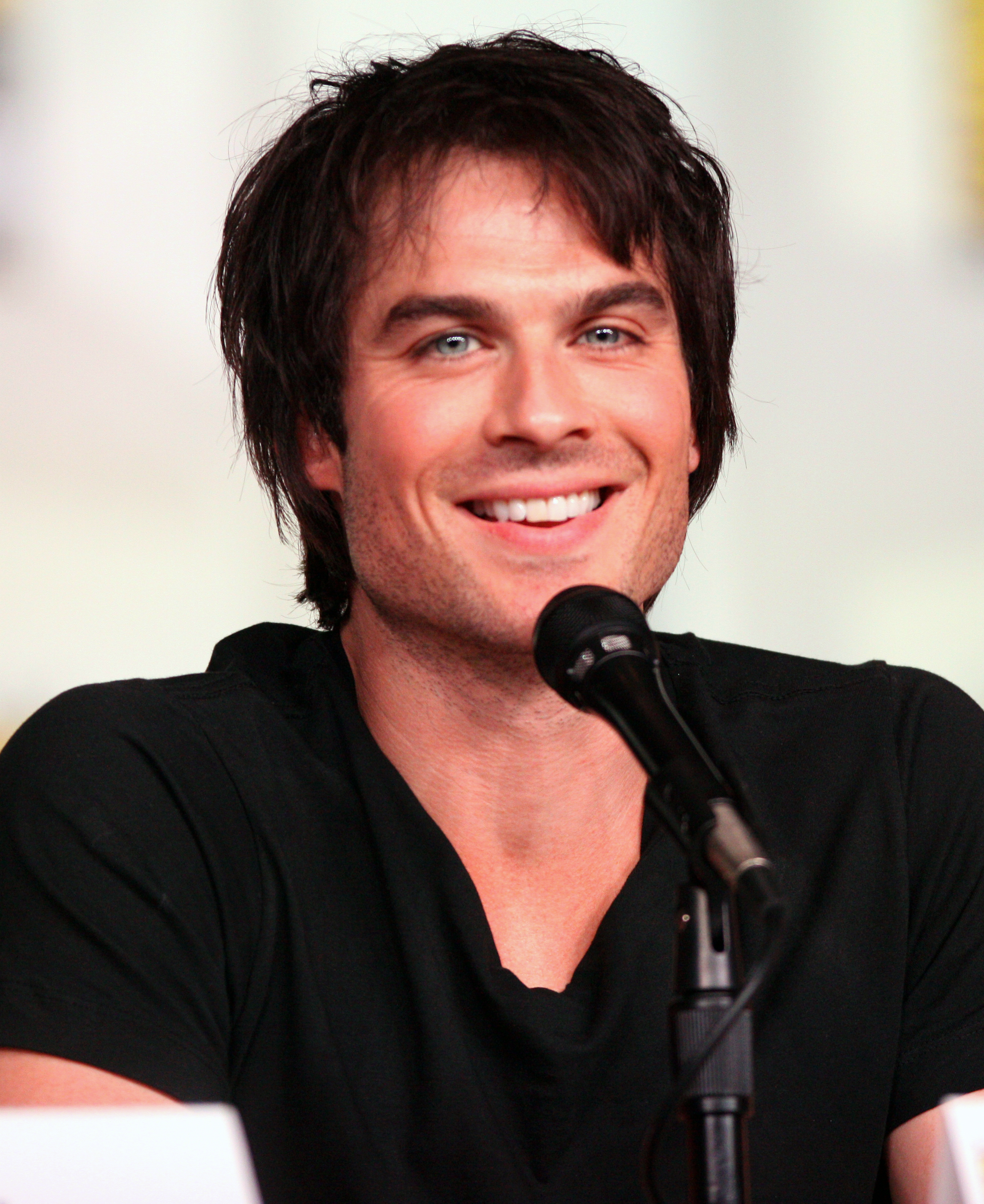 Ian Somerhalder at the 2012 Comic-Con in San Diego.